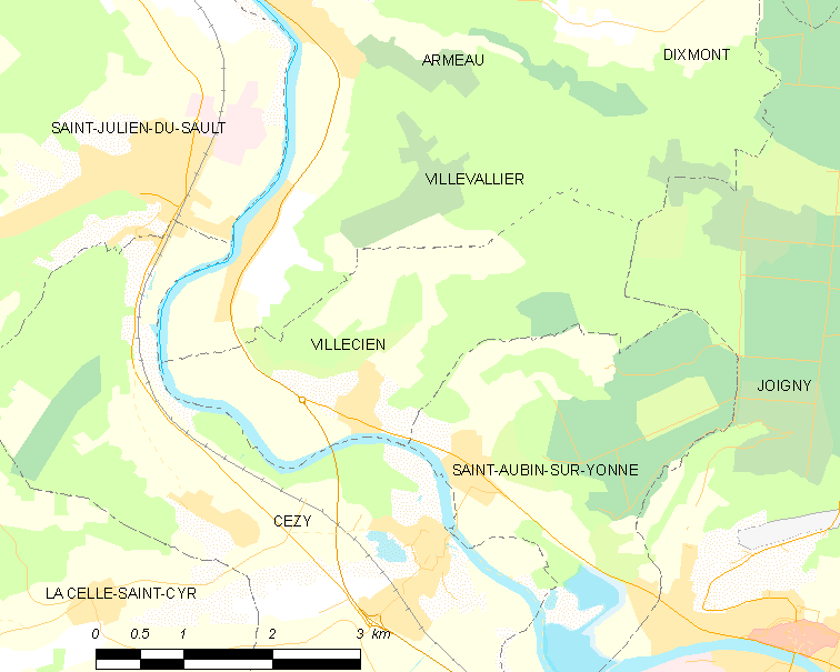 Map of French municipality Villecien